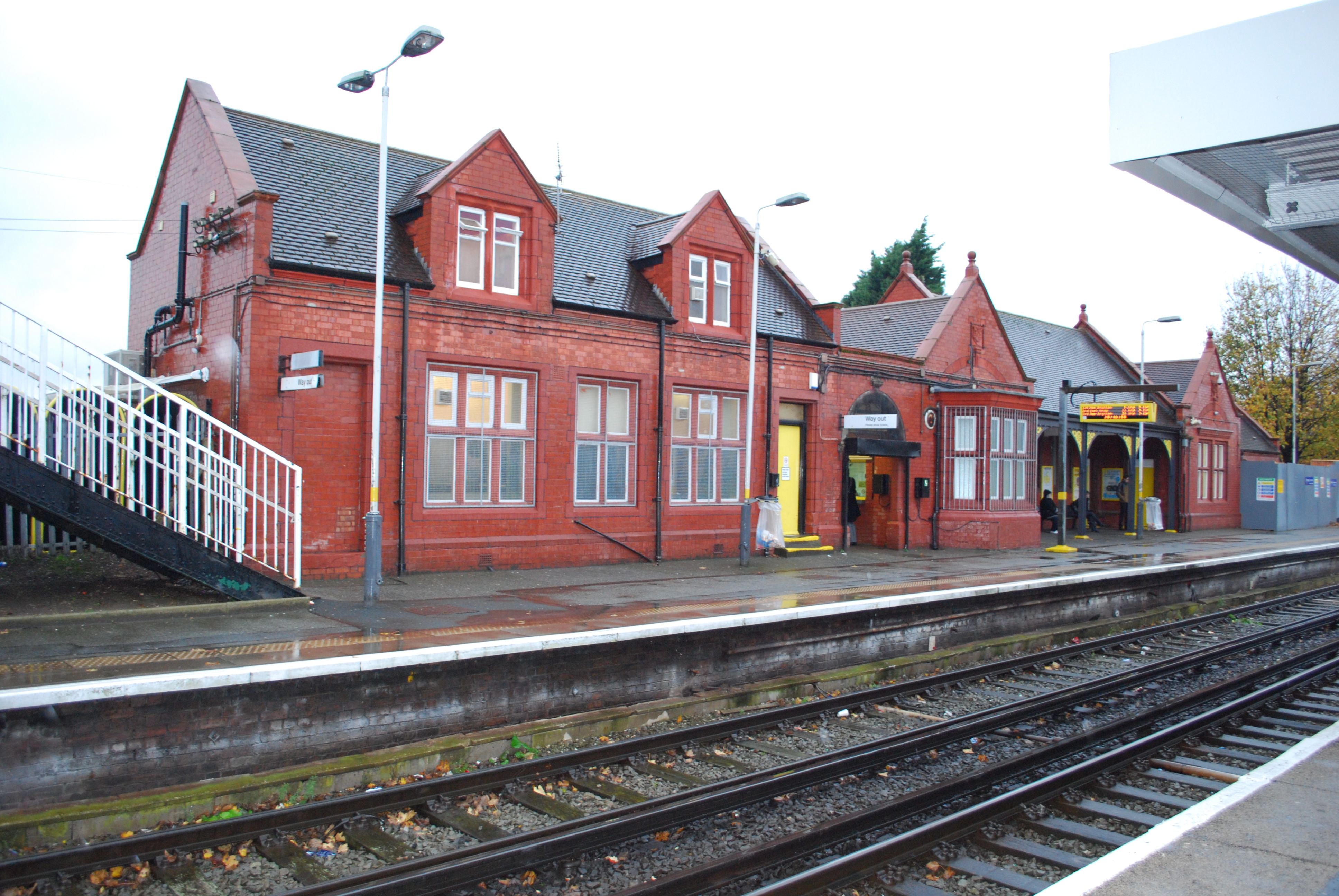 Birkenhead North station